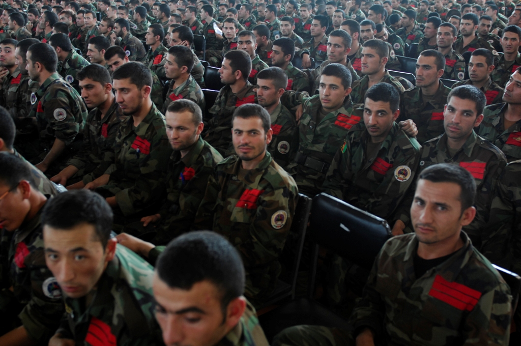 The National Military Academy of Afghanistan (NMAA) awarded its first honorary degree to U.S. Ambassador Karl Eikenberry in a ceremony attended by almost 2,000 cadets and instructors.